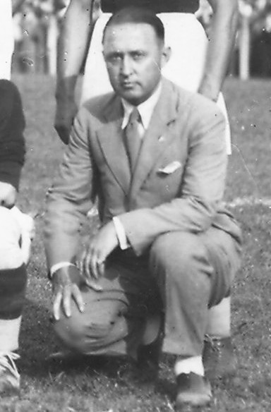 Photo of József Nagy (footballer born 1892) taken in the 1930's.